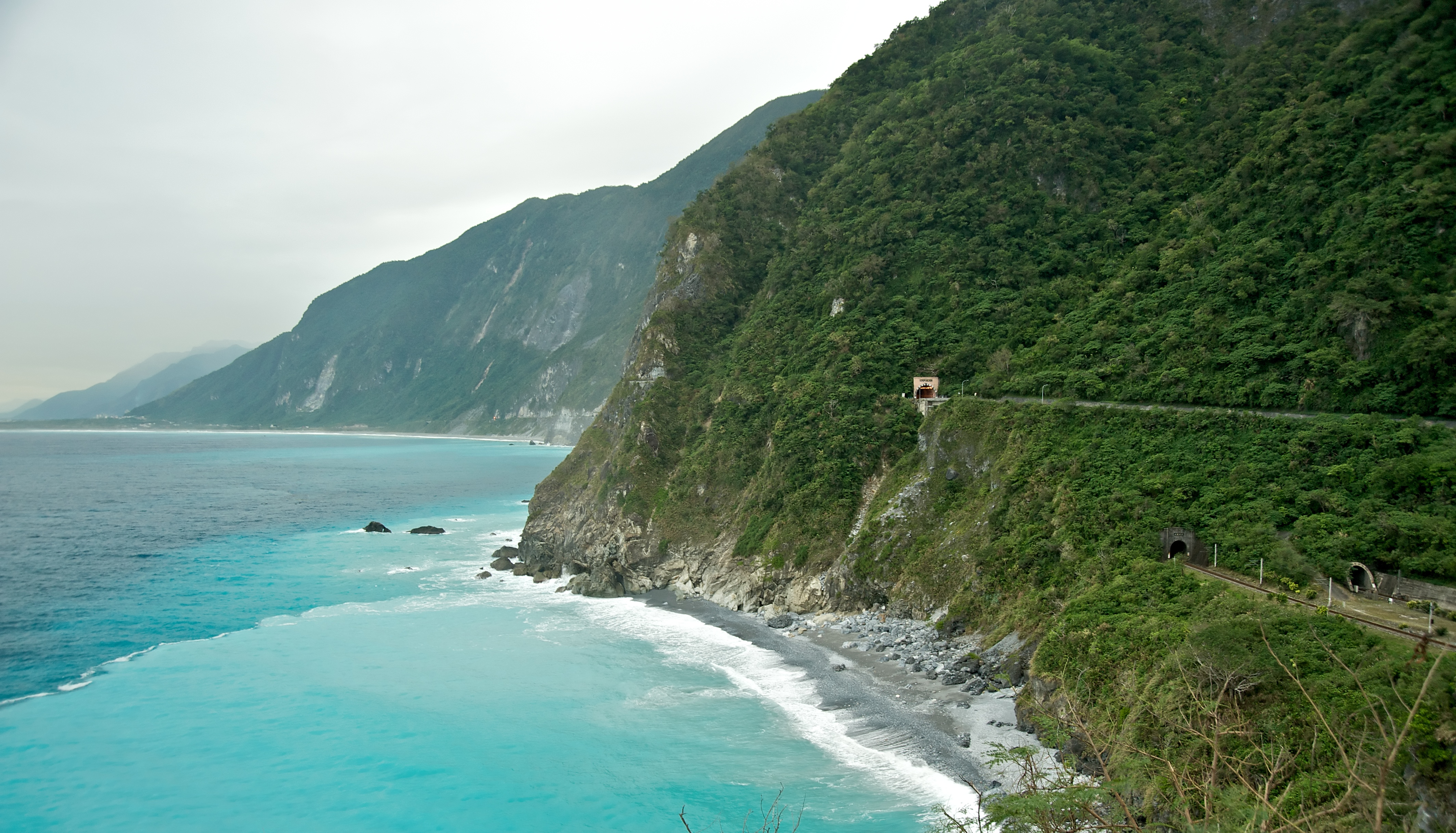 CingShui Cliffs on SuHua Highway in Hualien County, a scenic drive on the east coast of Taiwan.